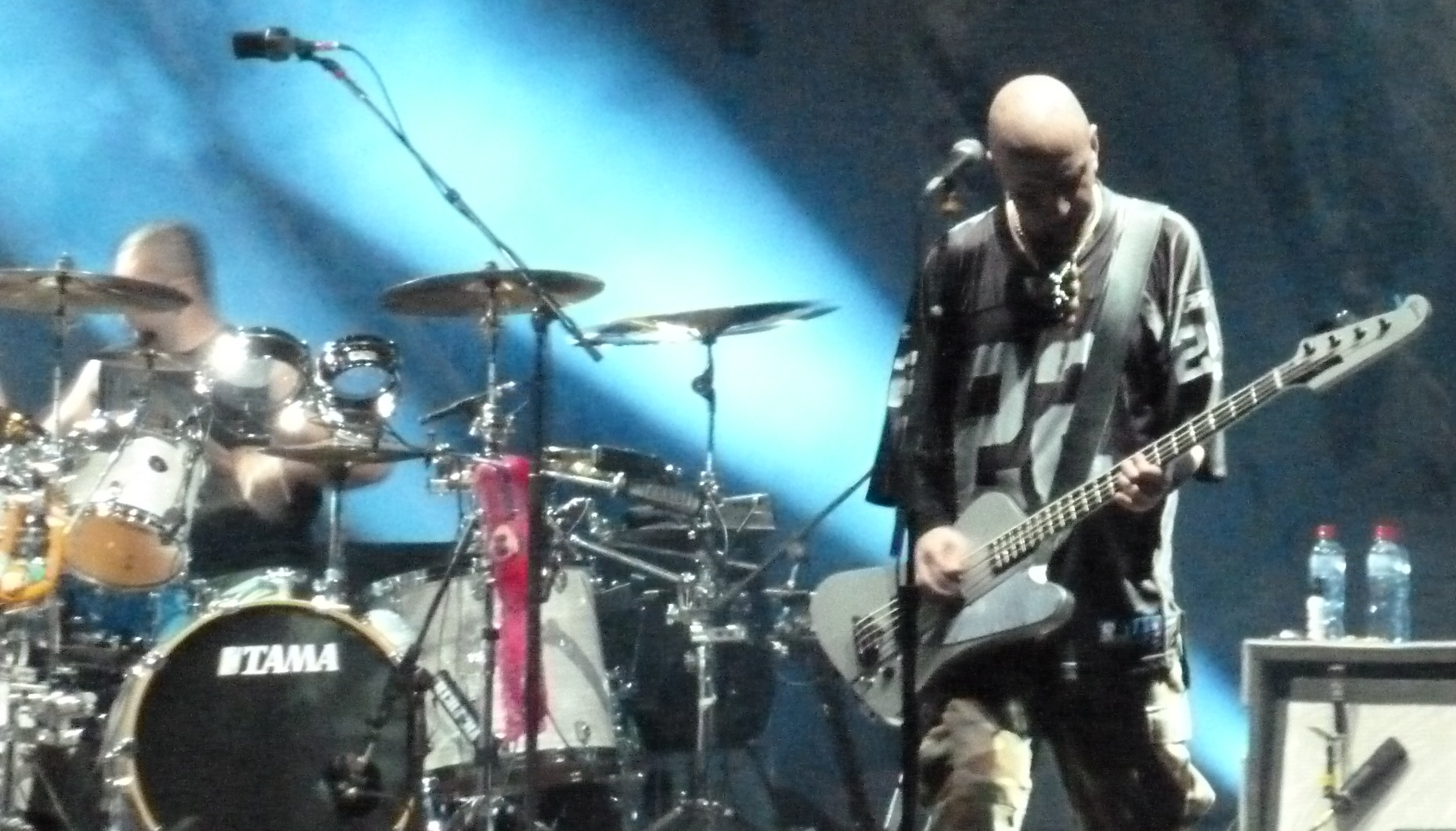 System of a Down at Estadio Bicentenario La Florida in Chile on the 7th of October 2011.